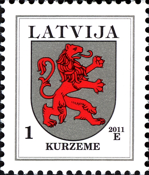 Stamps of Latvia, 2011